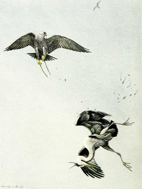 Gerfalcon striking grey heron.